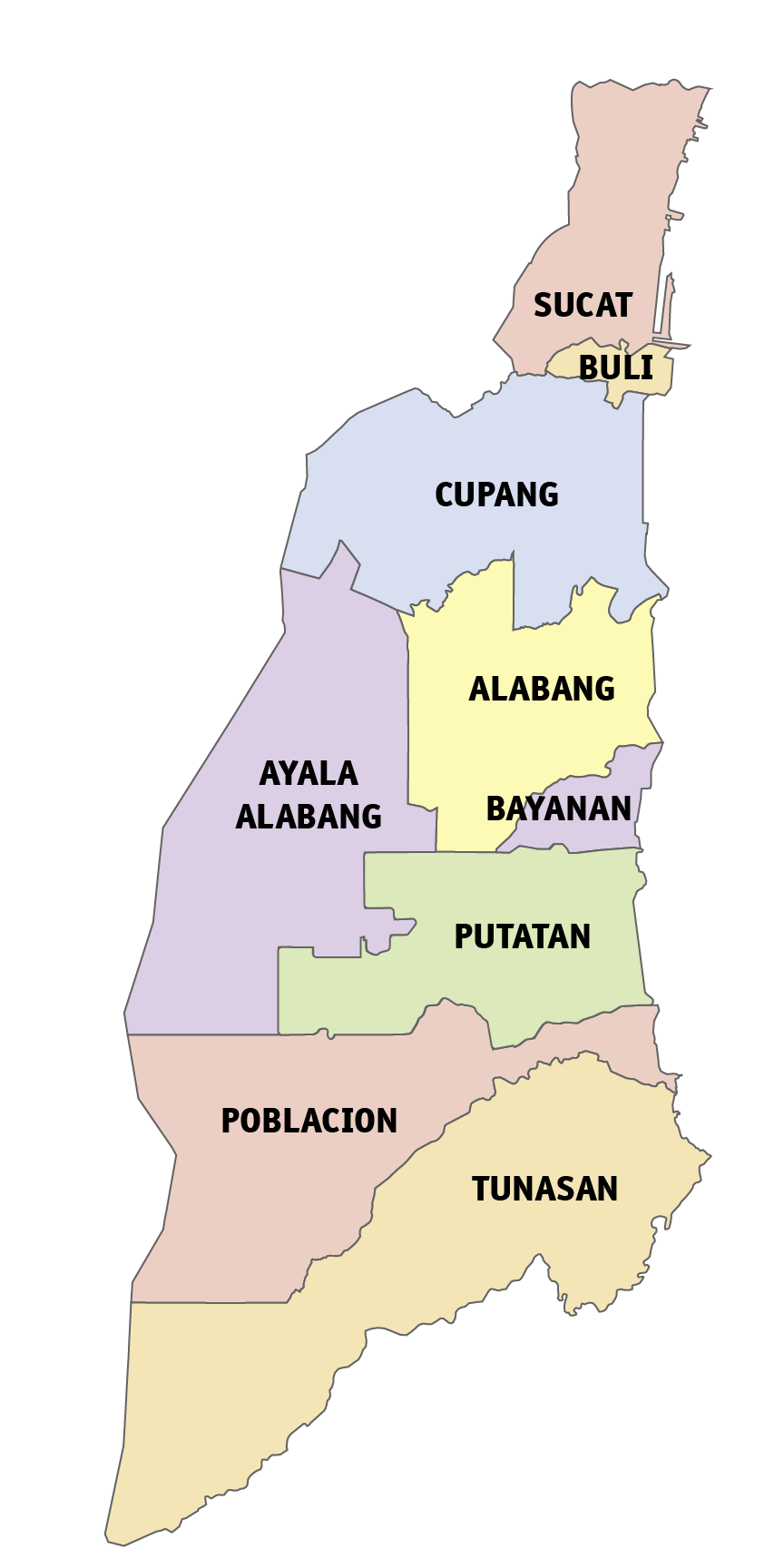 Political map of Muntinlupa